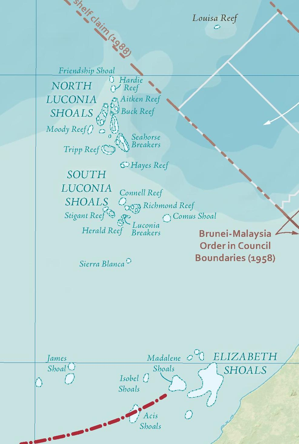 Map of the Spratly Islands in the South China Sea by Department of State (2015), showing occupation by Vietnam, China, Taiwan, Malaysia, Philippines